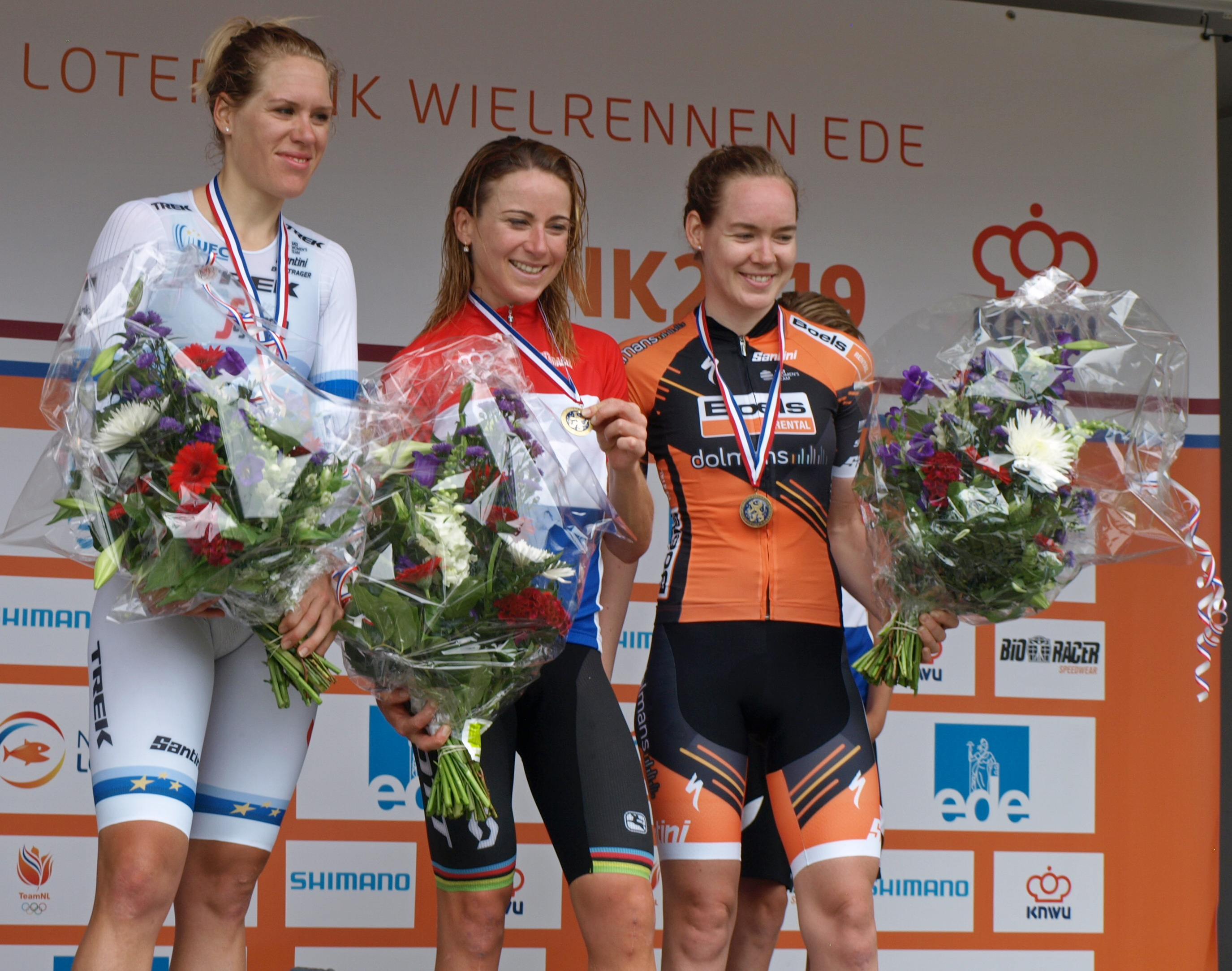 Dutch Championship Cycling 2019 Time Trial Women. Left:Ellen van Dijk (silver). Center: Annemiek van Vleuten (gold). Right: Anna van der Breggen (bronze).